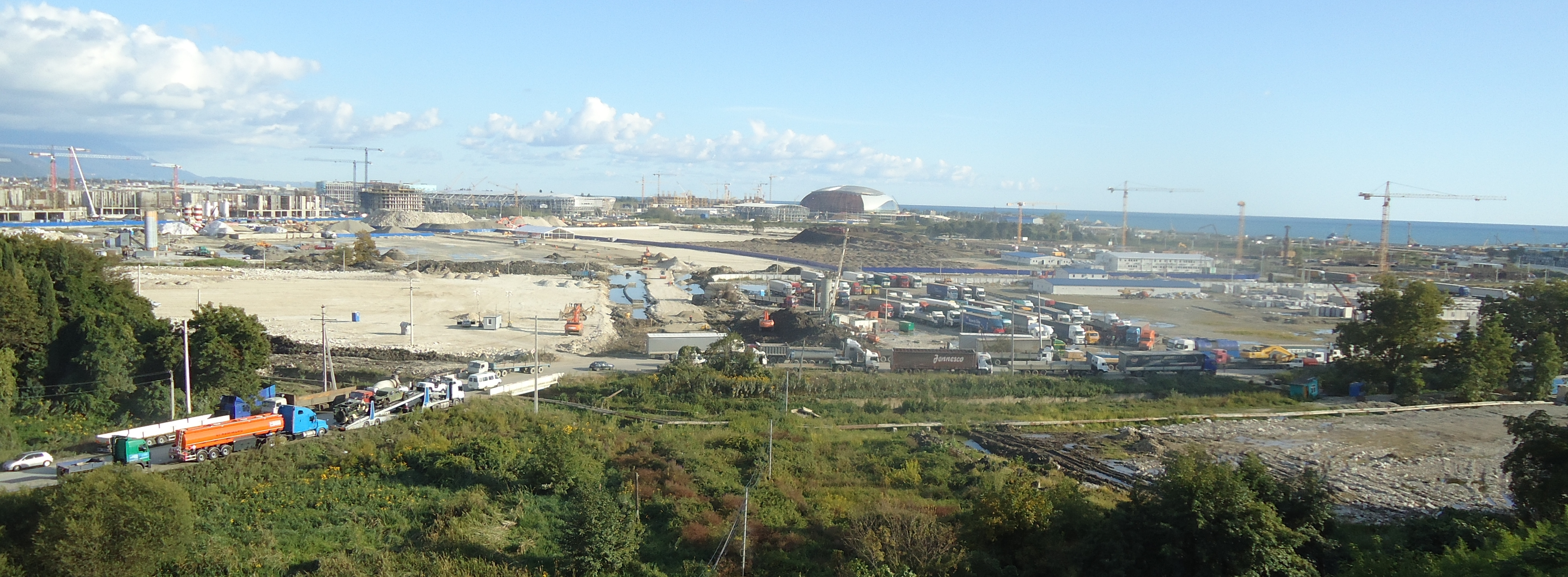 Panorama of construction of Olympic 2014 facilities in the Imereti lowland in the Adler district of the city of Sochi. October 2011.